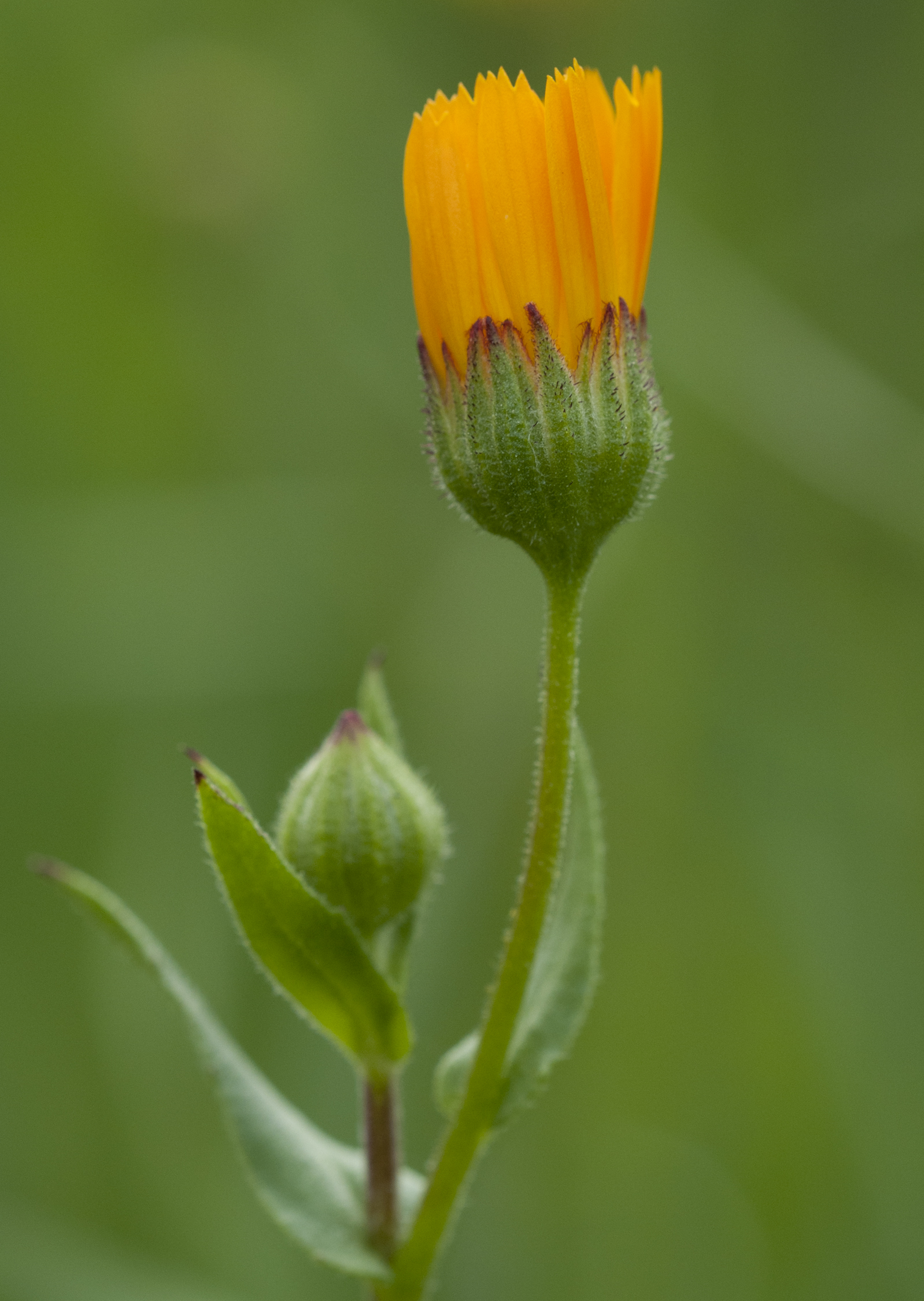 Flower of a field marigold (Calendula arvensis). Çukurova University Campus, Adana - Turkey.